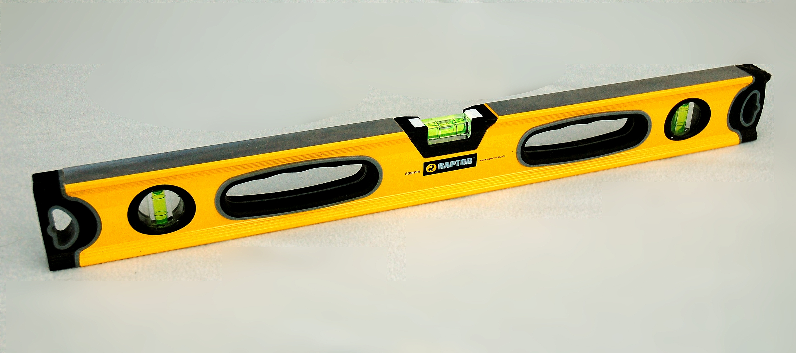 Spirit level